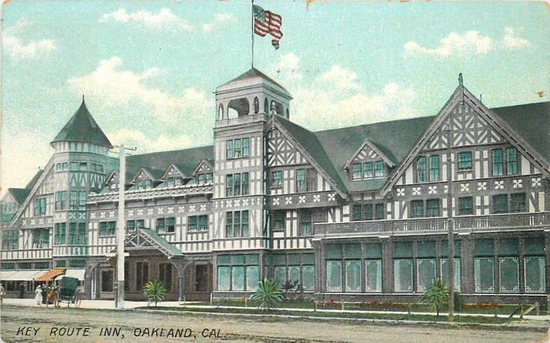 Early divided back postcard of the Key Route Inn, postmarked 1908